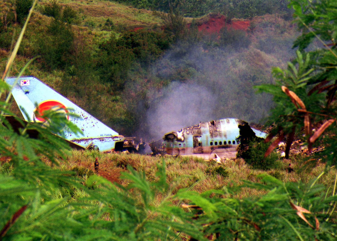 U.S. Air Force firefighters and Guam Police Department rescuers survey the wreckage of Korean Airlines flight 801 on Aug 6, 1997. U.S. Navy, U.S. Coast Guard, U.S. Air Force, and numerous civilian rescue teams, currently assisting in the search and rescue efforts of KAL flight 801, evacuated survivors from the crash site during the early morning of August 6th.